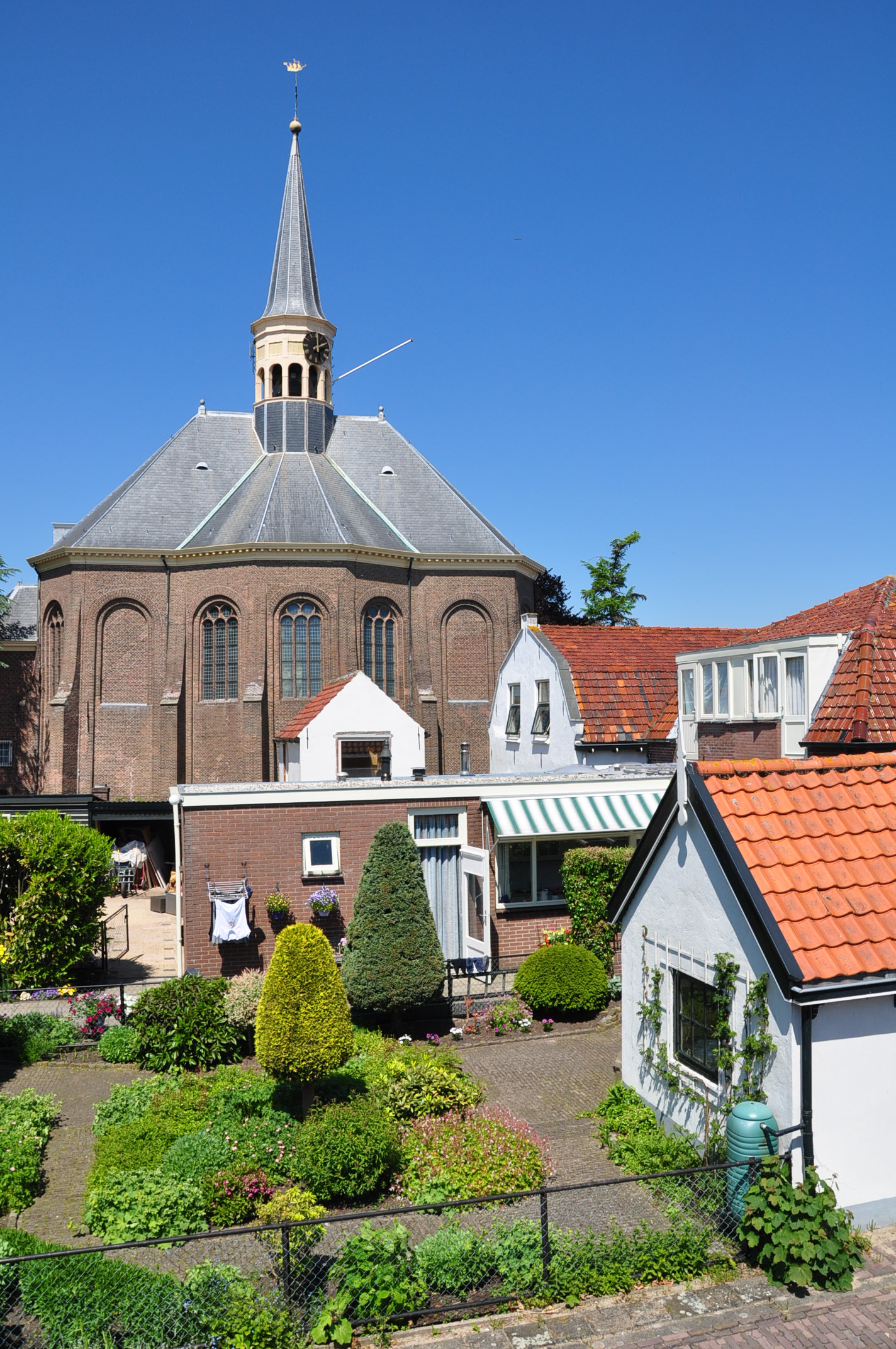 The old village centre of Woubrugge with the Netherlands' Reformed Church, a listed building (municipality Kaag en Braassem, Provincie South-Holland, Netherlands).